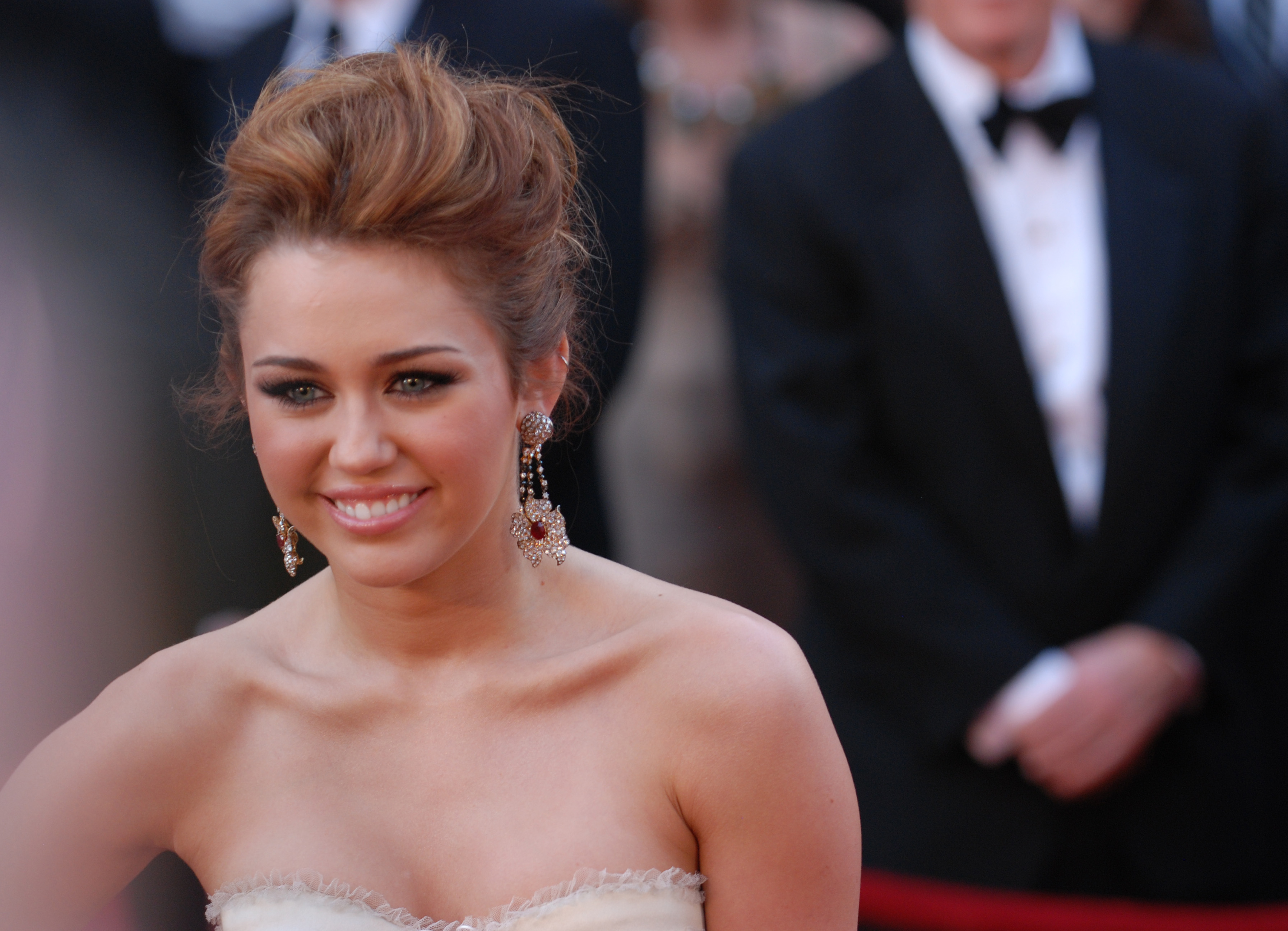 While other teens her age are planning for prom, Miley Cyrus is courted by a sea of photographers at the 82nd Academy Awards, March 7, in Hollywood, Calif.